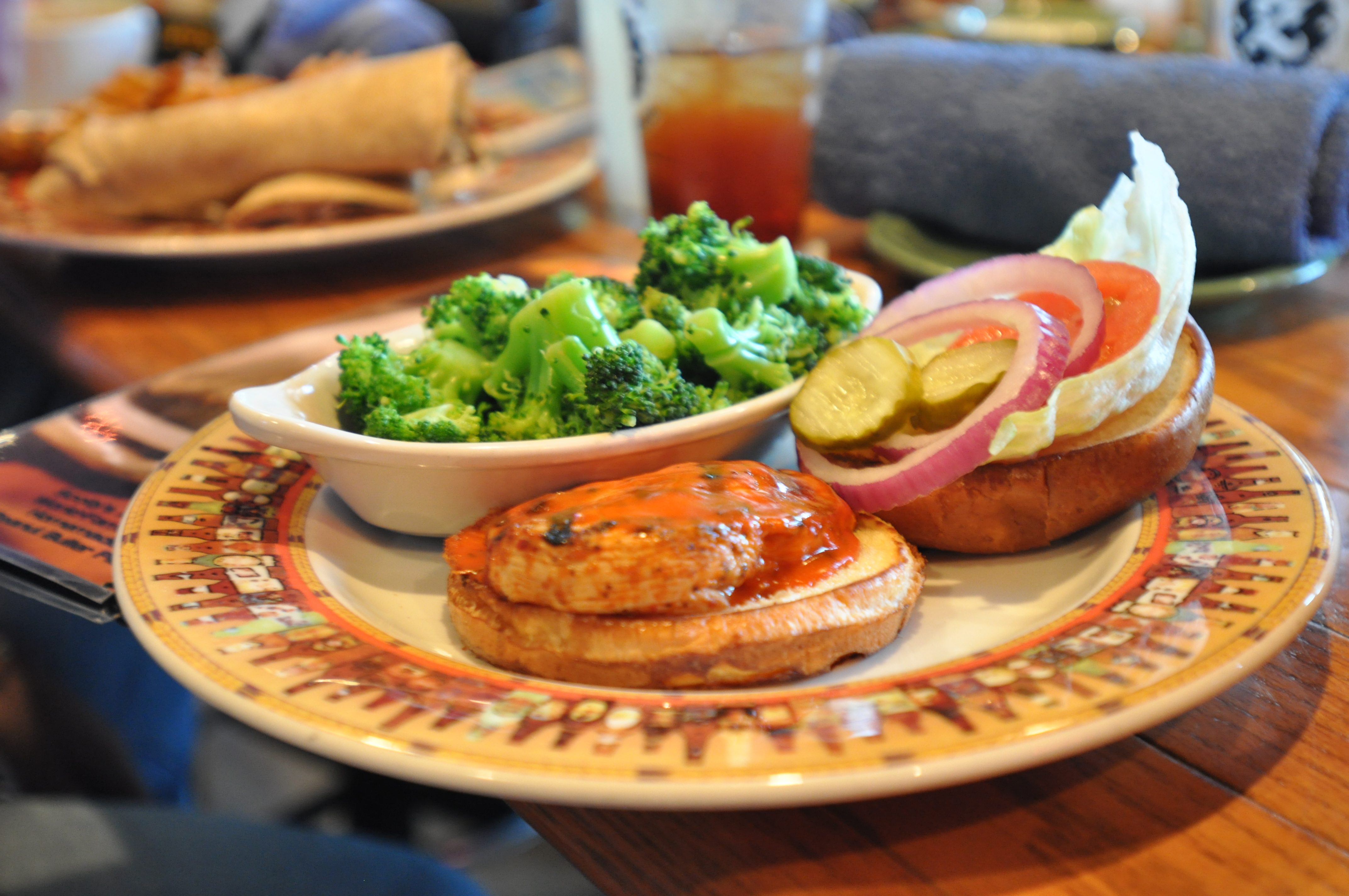 Chicken sandwich with broccoli on the side at Scotty's Brewhouse Photo by Shawna Pierson